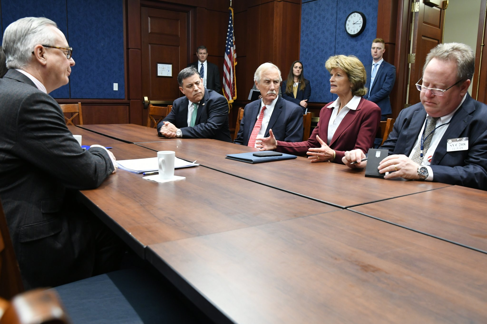 Because of our changing climate and Alaska’s strategic location, the Arctic will play a critical role both strategically and economically in the future of the United States.